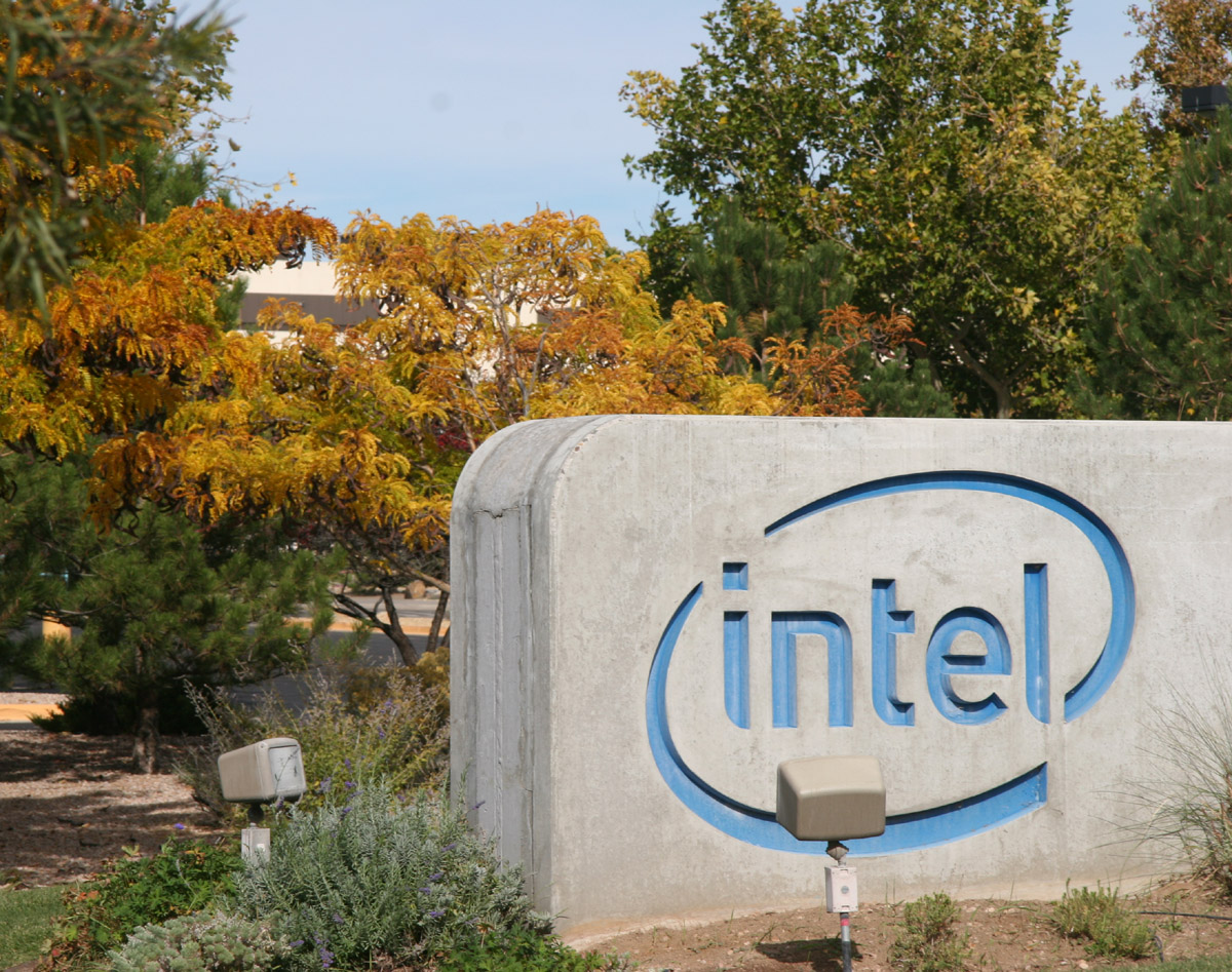 Intel facility in Rio Rancho, New Mexico.